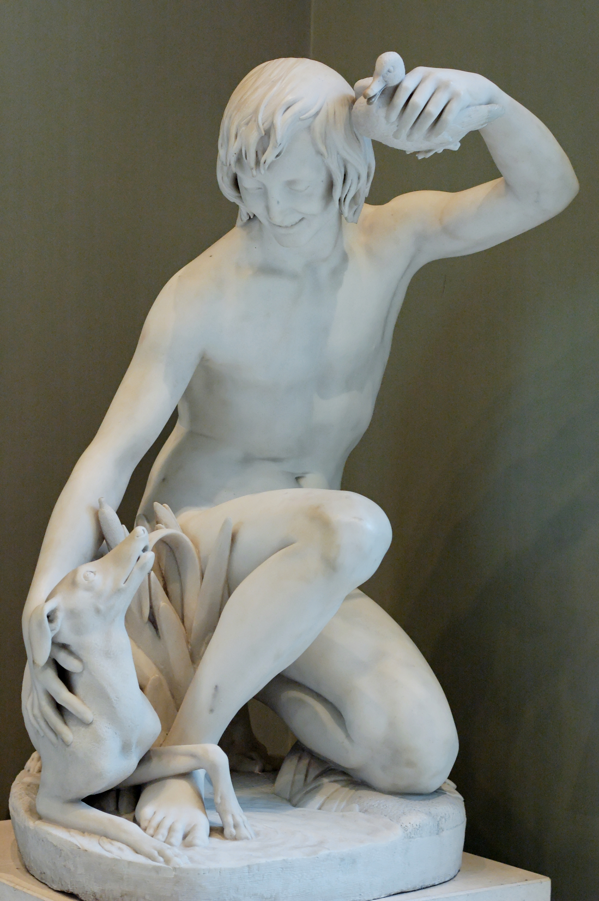 Made in Rome in 1833, exhibited at the Salon of 1835.